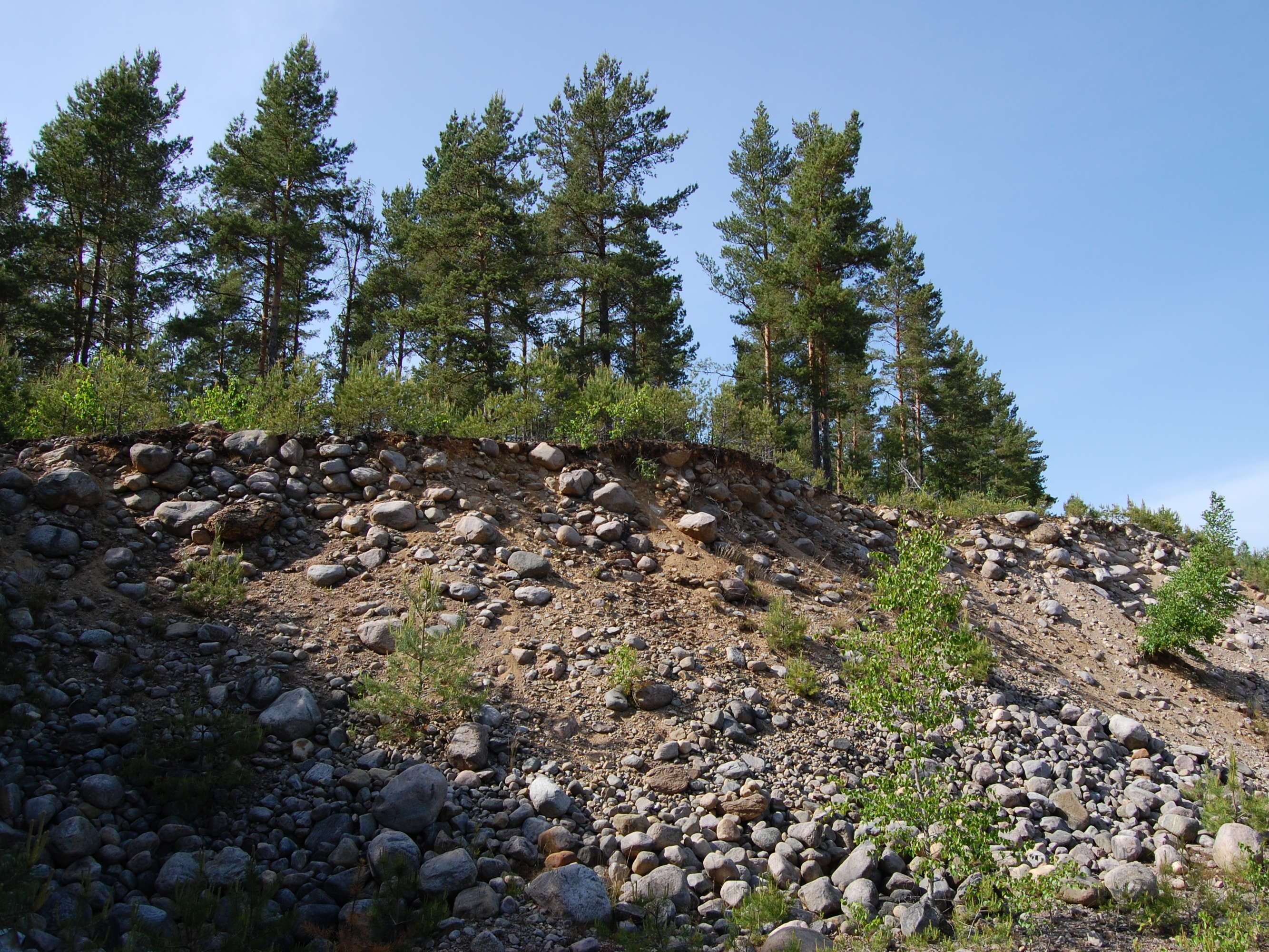 Deposits of the second drainage of the Baltic Ice Lake (11,700-11,600 BP) at Klyftamon, Västergötland, Sweden. The largest boulders are up to 1 meter in diameter. For more info see Björck & Digerfeldt 1984.